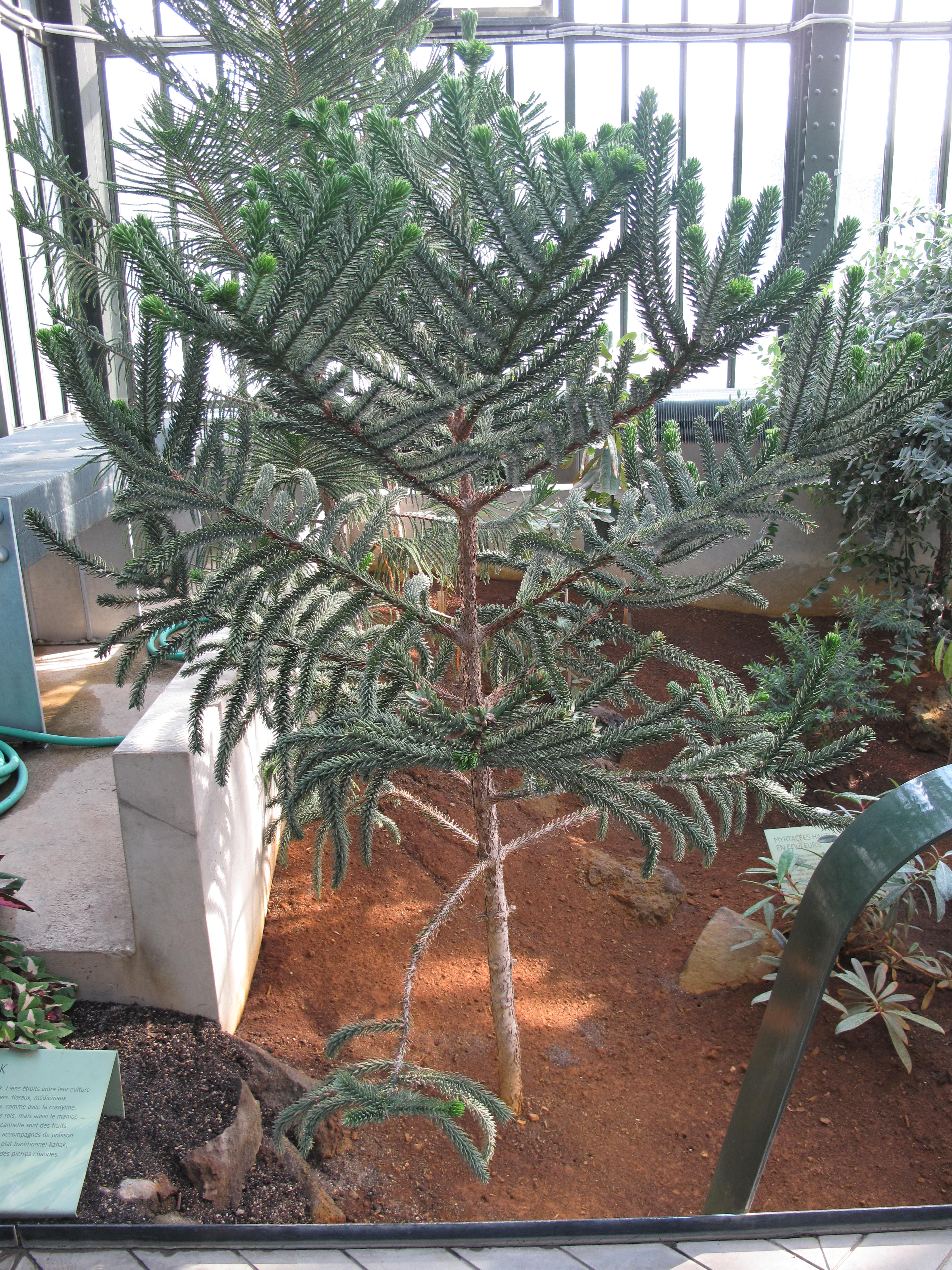 Araucaria muelleri in the New-Caledonia greenhouse of the Jardin des Plantes in Paris. Identified by sign.